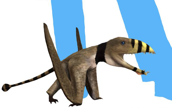 Restoration of Caelestiventus hanseni.